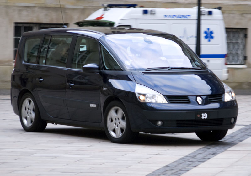 The danish royal house vehicle "Krone 19" ("Crown 19"); an Renault Grand Espace IV.